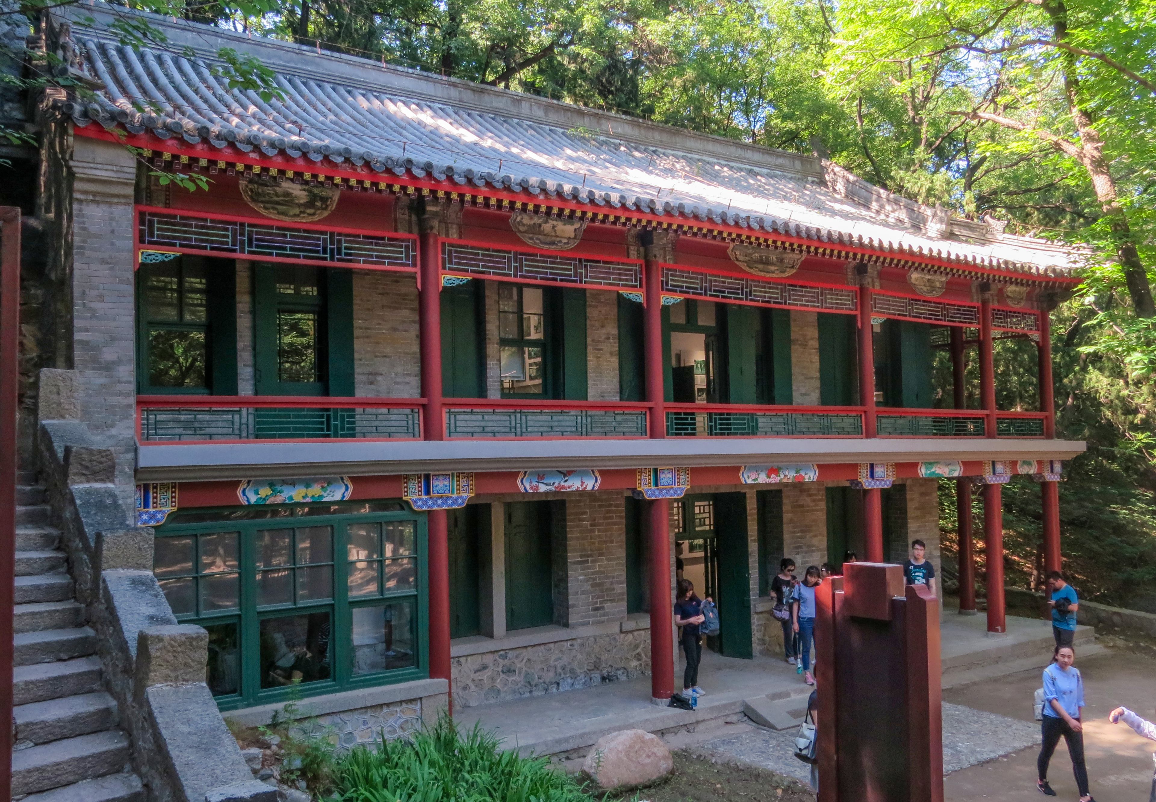 This is where Dr. Bussière lived in this garden.